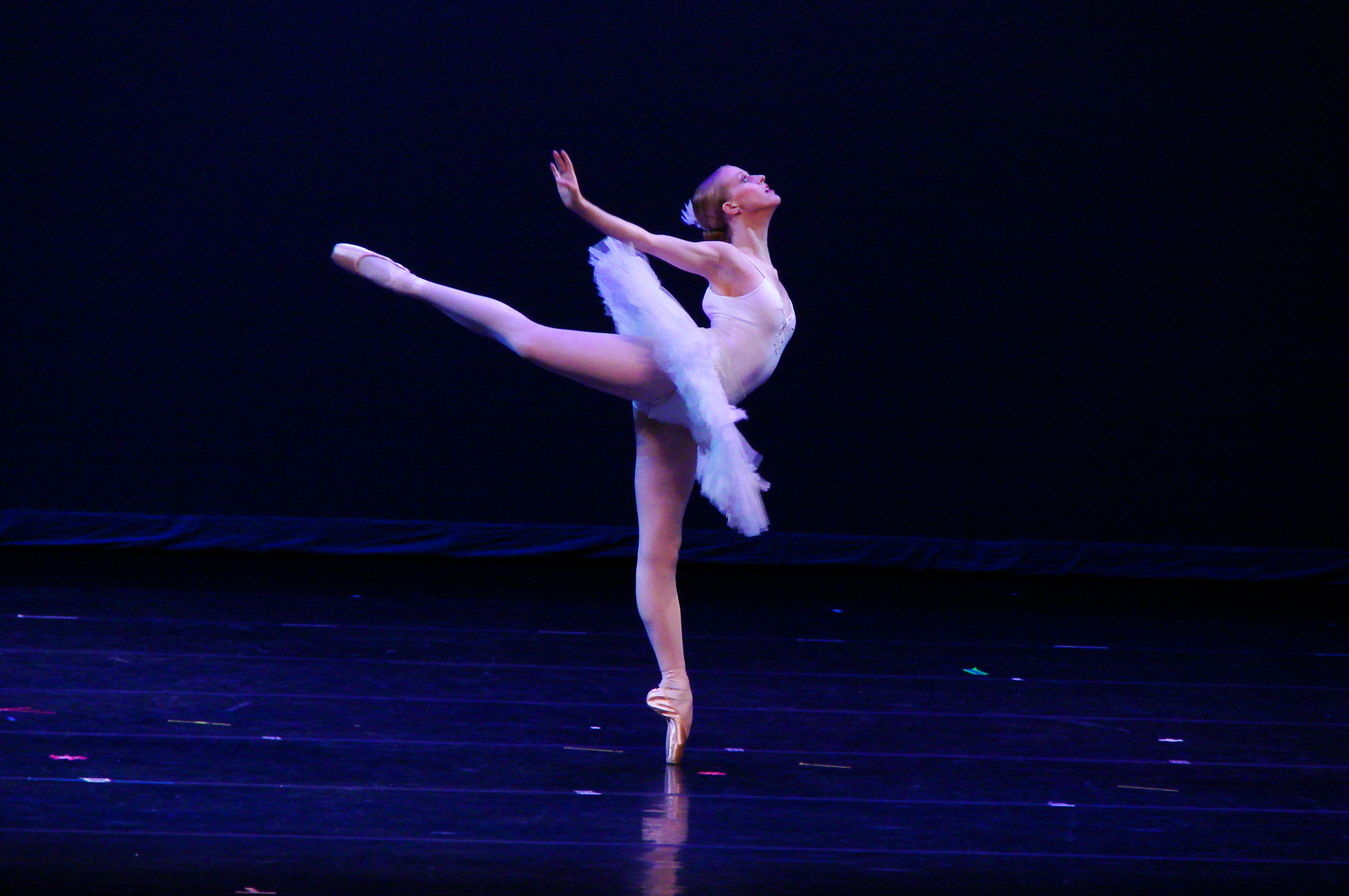 Ballerina of the Hathaway Academy of Ballet (Plano, TX).